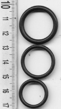 o-rings Scan, upload MH 11:29, 2005 Jun 19 (UTC)